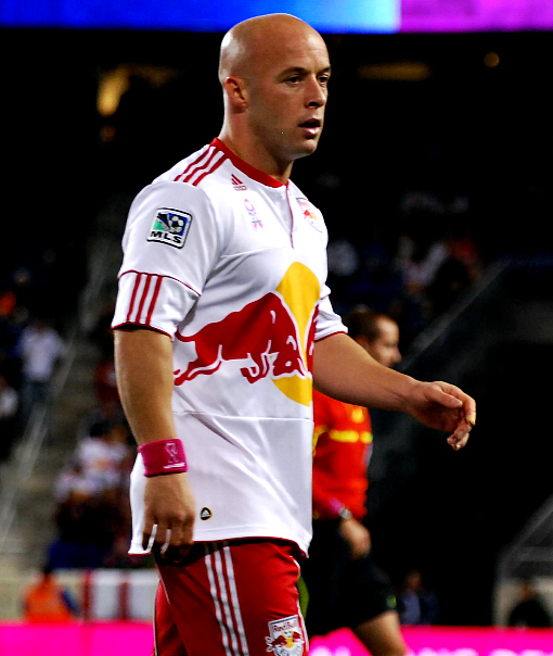 English professional football striker Luke Rodgers in a match against the Philadelphia Union. Photo: Thursday, October 20, 2011.